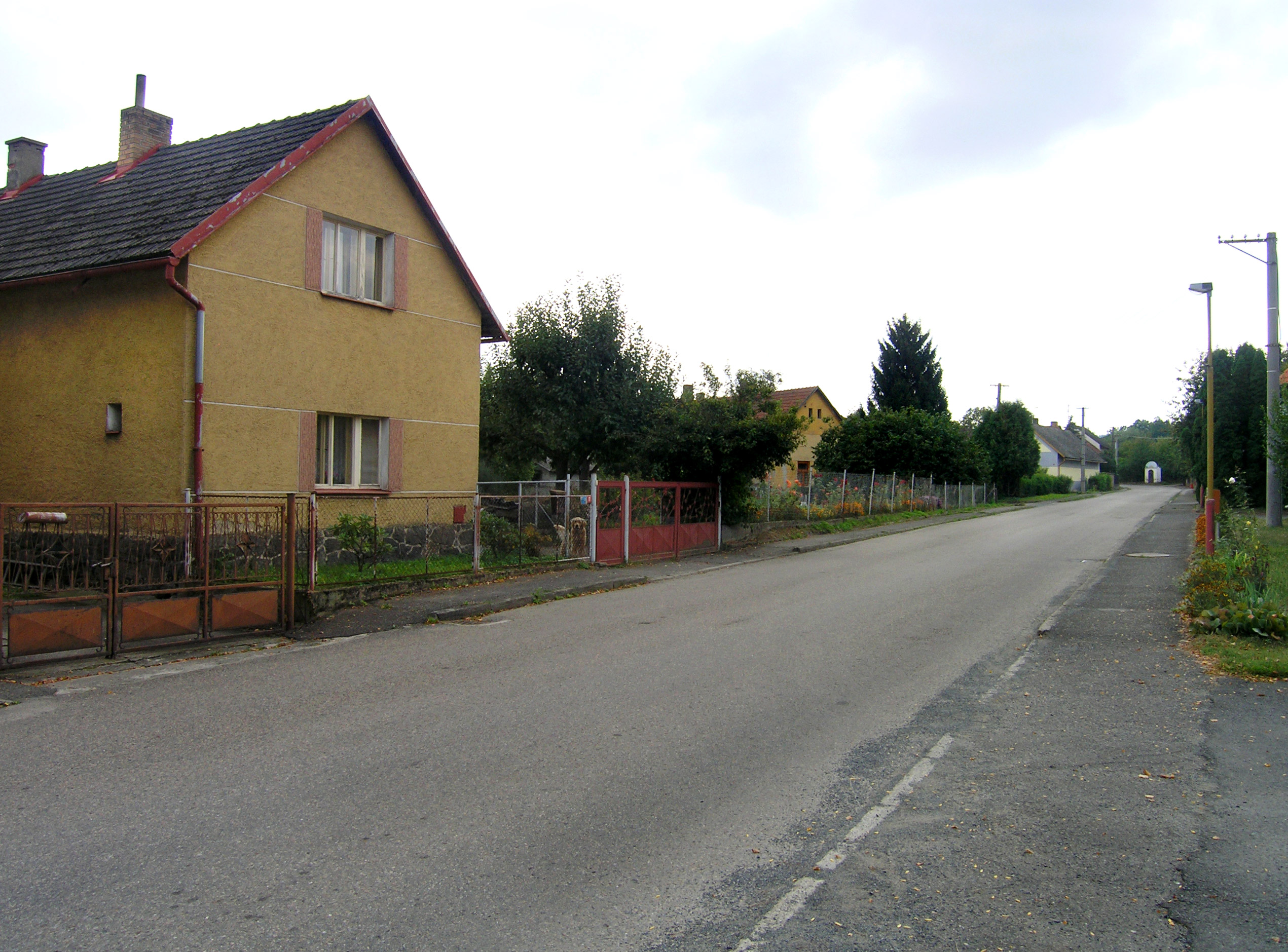 Main street in Chleby, Czech Republic